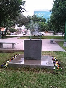 Monumento Virginia Galdos del Carpio- Ubicado en la ciudad de Lima- Peru (Av. San Borja Norte cdra.5 San Borja)